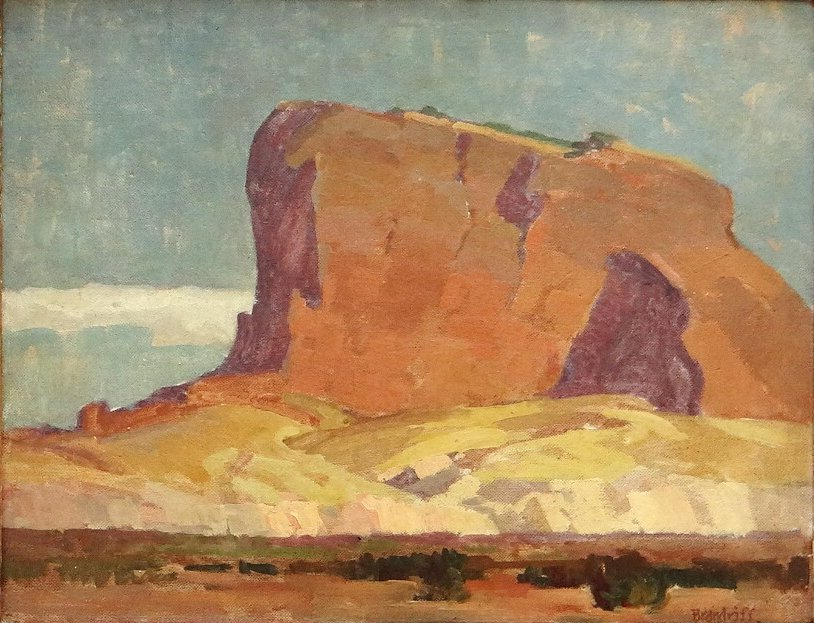 Cly Butte (Navajo for ‘left’) Monument Valley, Arizona by George Kennedy Brandriff, 1933, oil on canvasboard, 14 x 18 in.